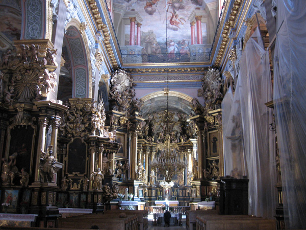 The interior of the church of bernardines, Lviv